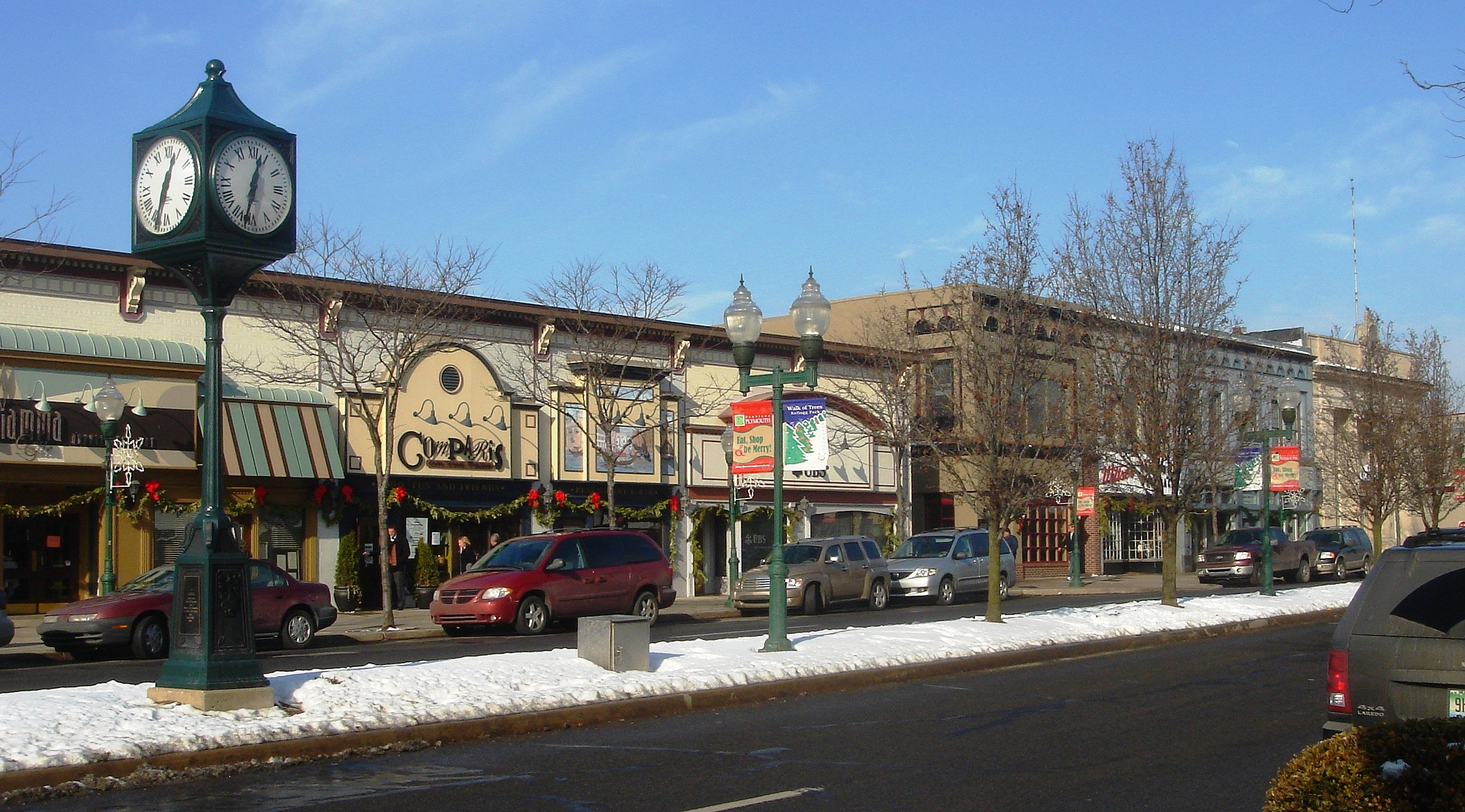 Downtown Plymouth, Michigan